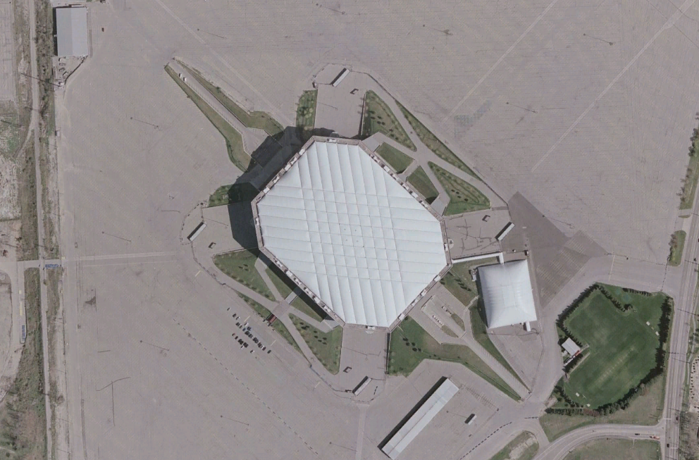 15 octobre 2006 à 14:02 . . Betp . . 992×653 (956 932 octets) (nasa world wind 1.3.5 ==Licence== Domaine public NASA )